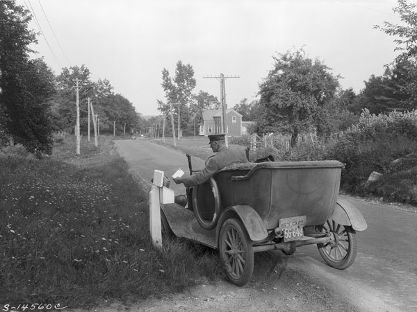 "Postman delivering mail, rural mail route, York county, Maine" By George W. Ackerman, August 26, 1930 National Archives and Records Administration, Records of the Extension Service (33-SC-14560c) [VENDOR # 63]